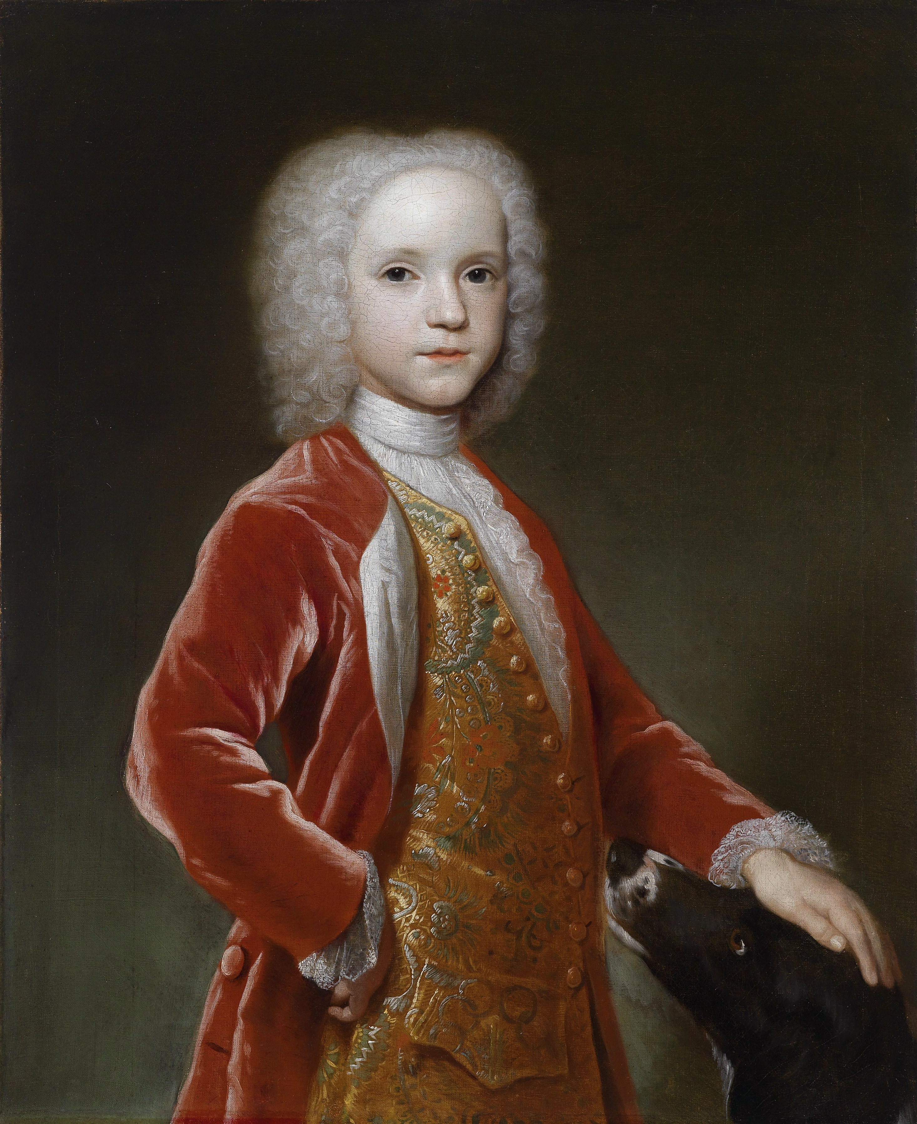 George Bubb Dodington, 1st Baron Melcombe in his childhood